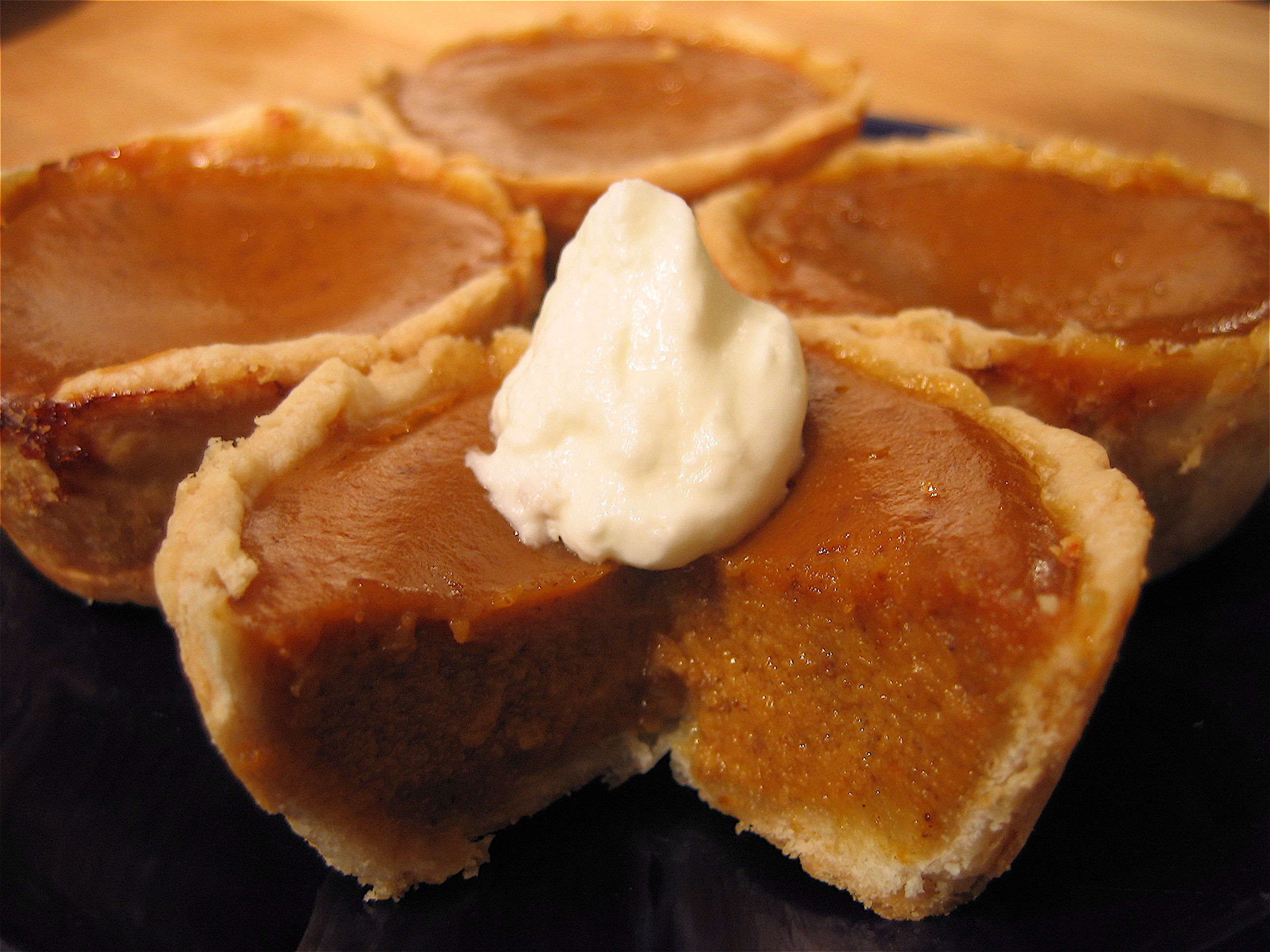 Teeny Pumpkin Pie tartlets.